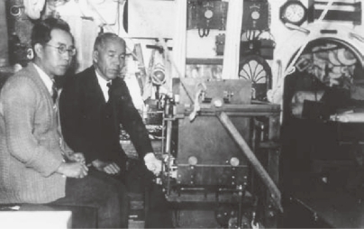 The gravity pendulum and Professor Motonori Matuyama. The Meinesz’s pendulum apparatus placed in the commanding tower of the Japanese submarine “Ro 57”. On the right is Professor Motonori Matuyama, and on the left is Naoichi Kumagai (technical associate at that time). The submarine set sail from Yokosuka naval port in a drizzle on October 17, 1934. The team measured three or four dives a day, 27 times during a total 25 dives crossing the Japan Trench six times.